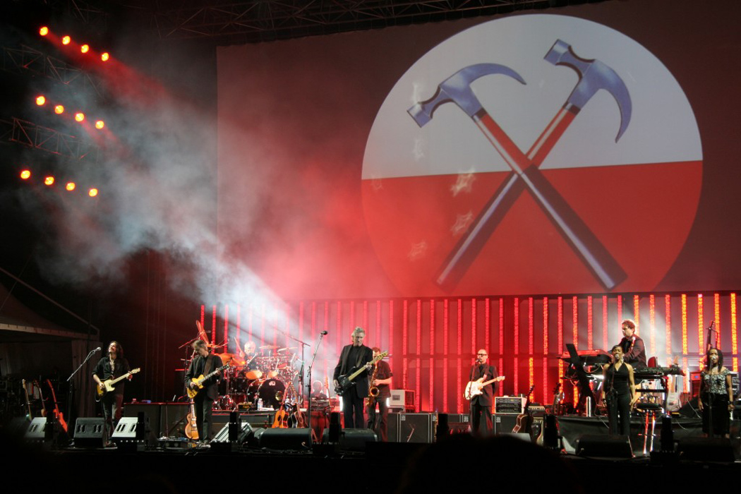 Roger Waters perfroming in Verona Italy 5 June 2006.jpg